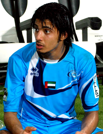 Theyab Awana is an Emirati football player